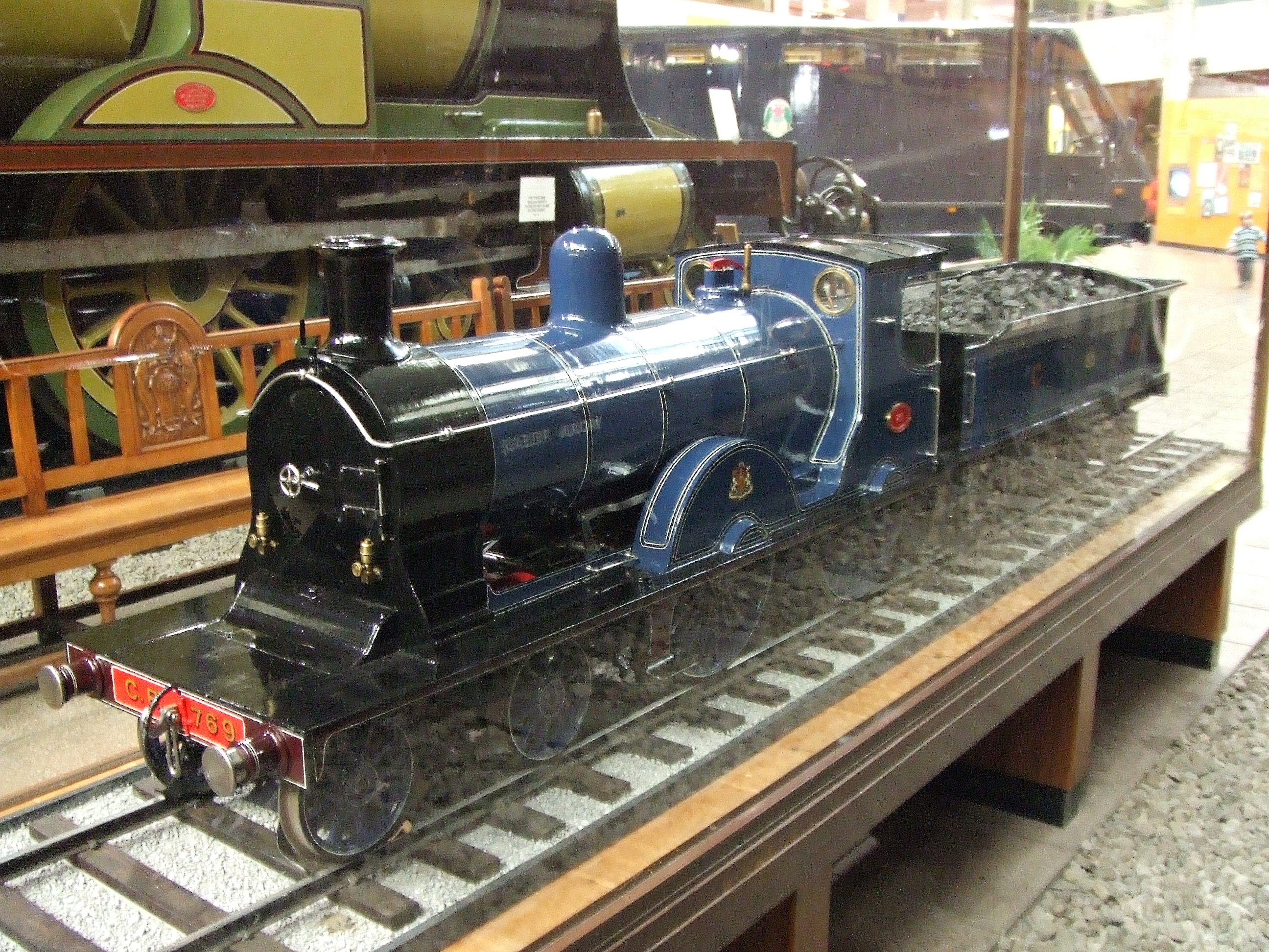 Model of Caledonian Railway Class "769" or "Dunalastair II" (L.M.S. "2P") 4-4-0 No.769 (L.M.S. No.14431) built 1897, rebuilt to superheated form 1914 and withdrawn 1937. Designed by J.F. McIntosh and had the largest loco boiler in the UK. An immensely successful and influential class. At the Museum of Transport, Glasgow, 03/07.